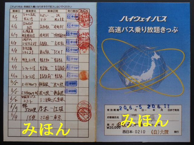 JR Highway Bus Free Ticket